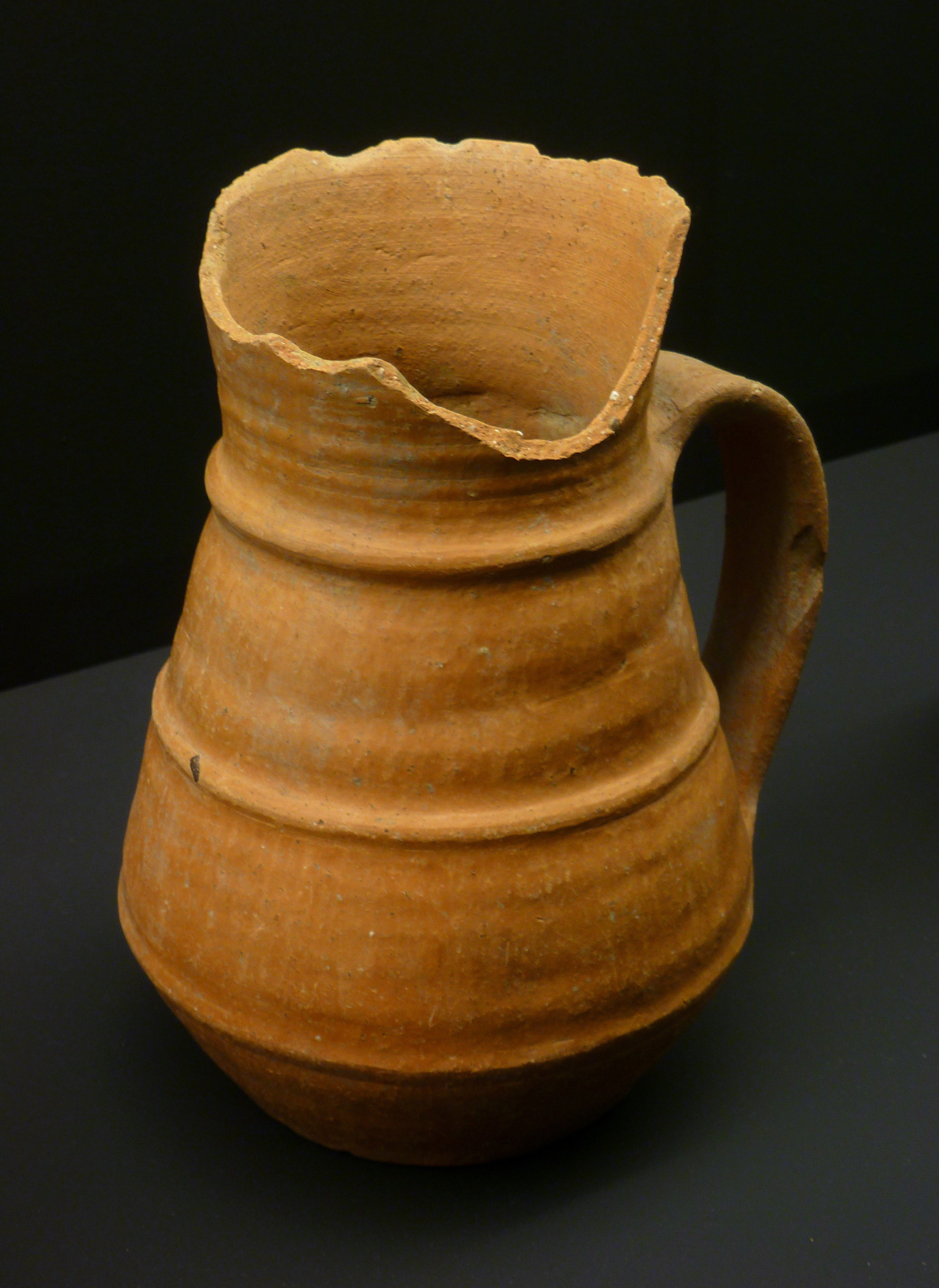 Hispano-Moresque pottery jug. Museum of Zamora, Spain.